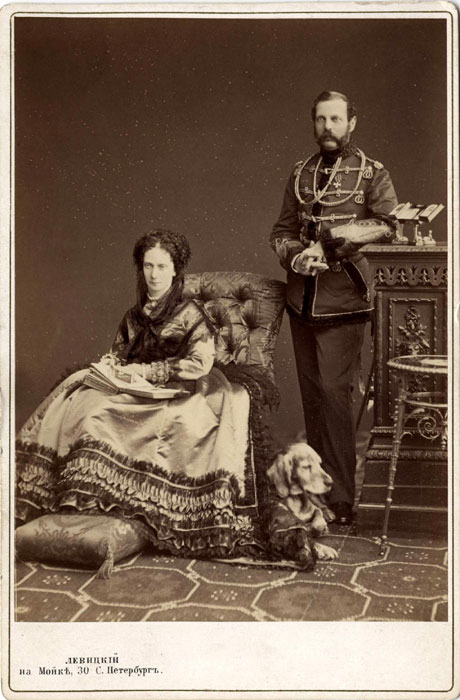 Alexander II of Russia and his wife Maria Alexandrovna (Marie of Hesse)